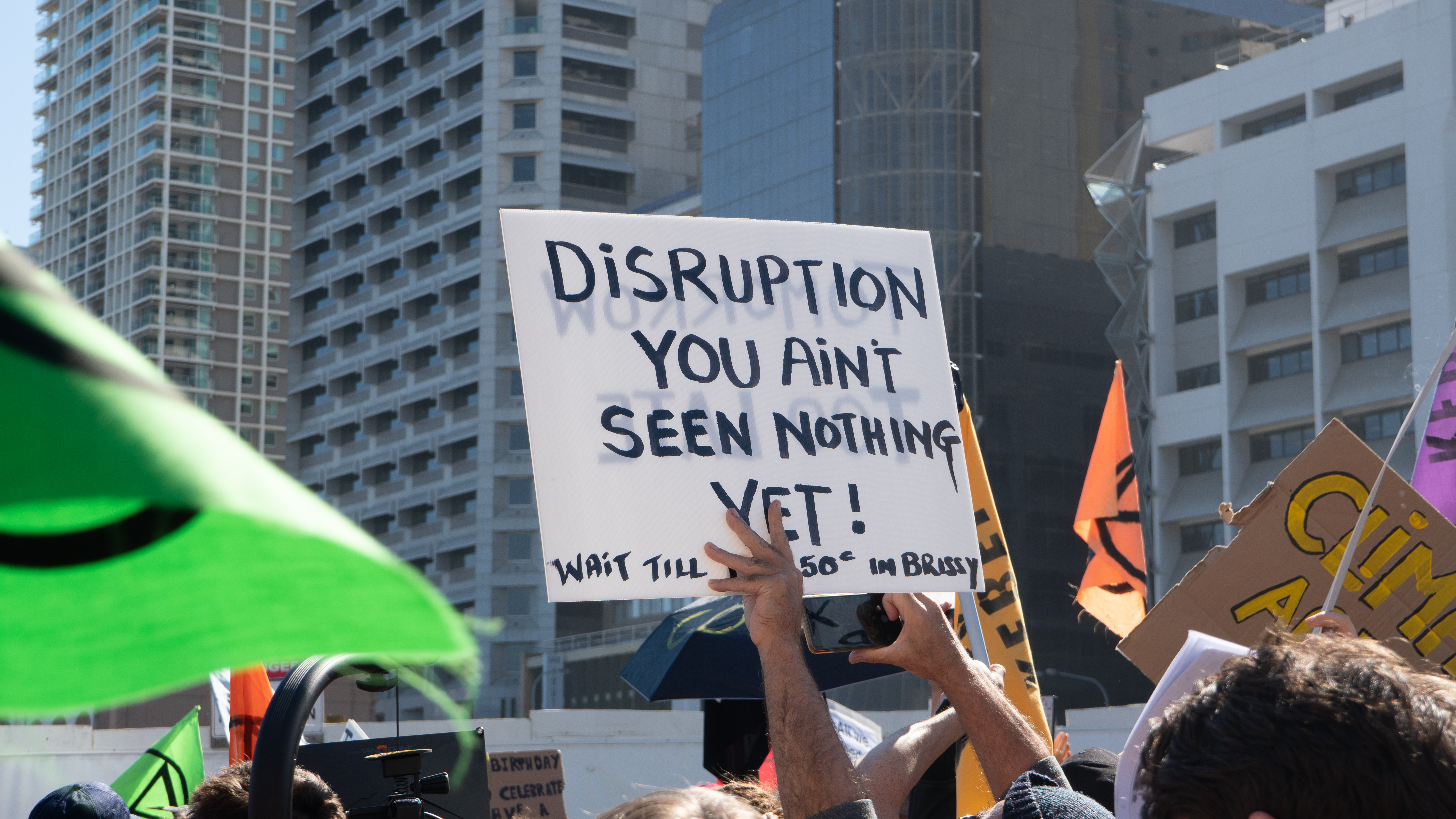 Protesters with sign: "Disruption? You ain't seen nothing yet! Wait till it's 50°C in Brissy"